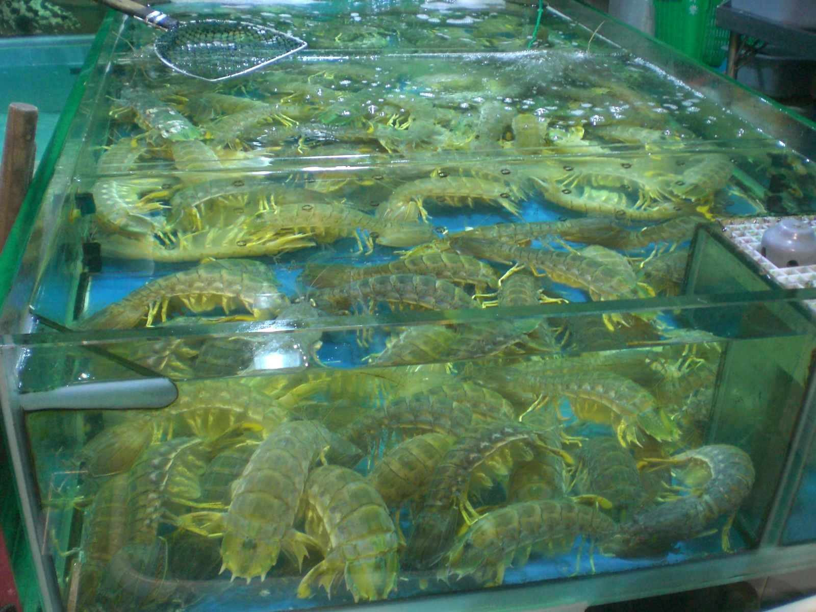 觀塘區鯉魚門村 海鮮 瀨尿蝦